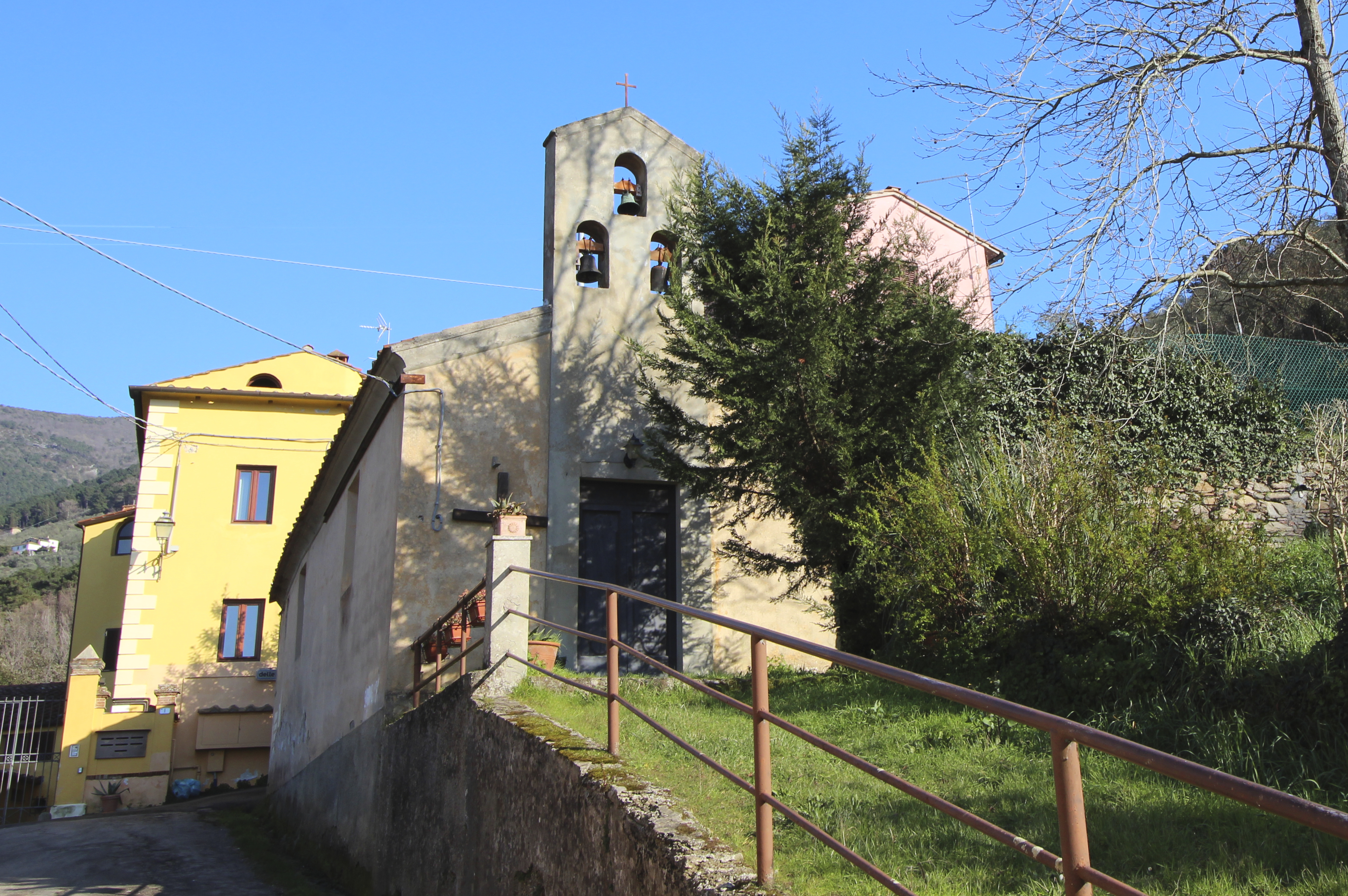 San Lorenzo al Sasso, church in San Lorenzo, part of Montemagno, hamlet of Calci, Province of Pisa, Tuscany, Italy